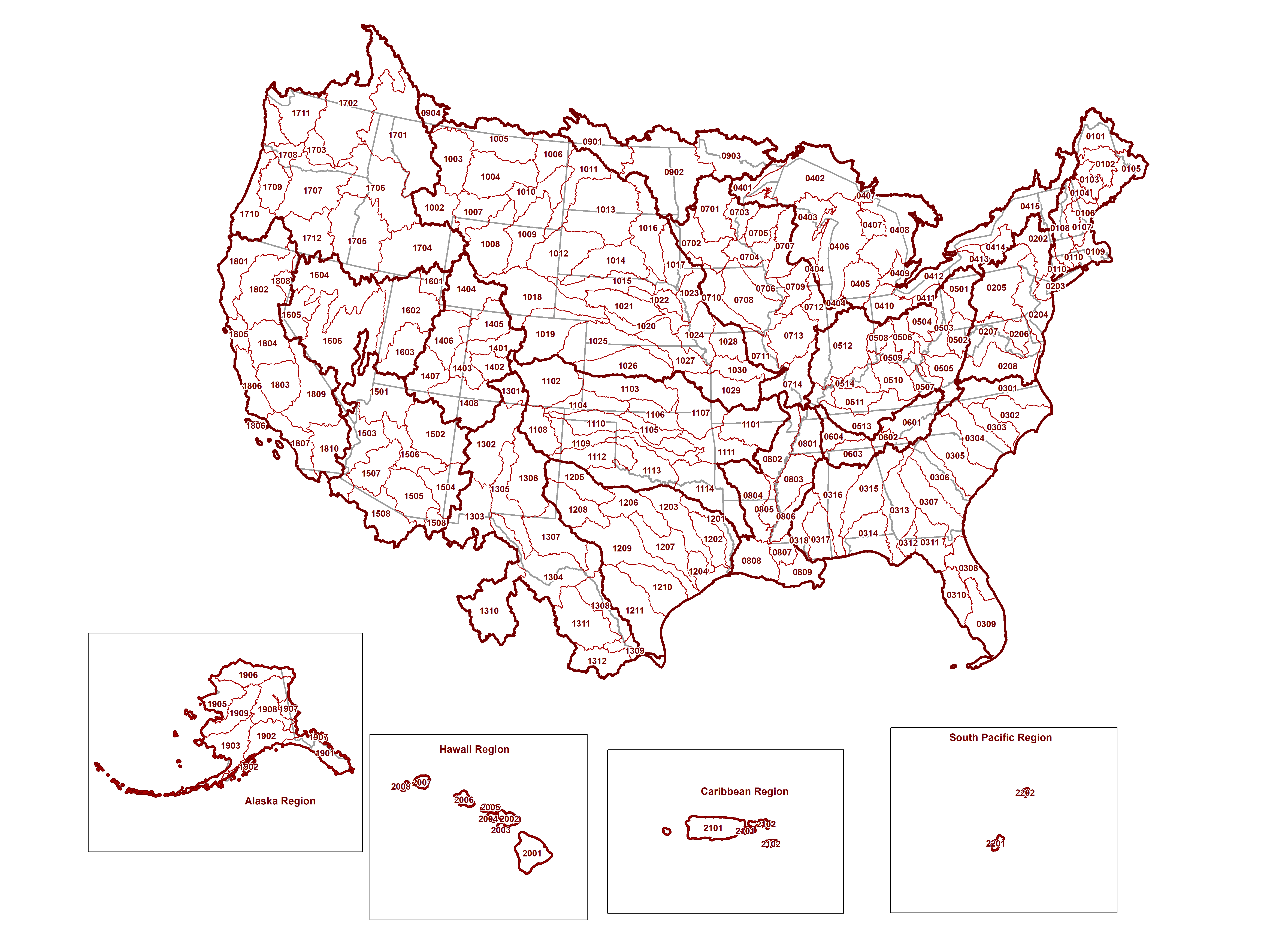 Watershed Boundary Dataset Subregions Map: Map of the "subregions" of the USGS hydrologic unit system, AKA Watershed Boundary Dataset (see Hydrological code#United States).